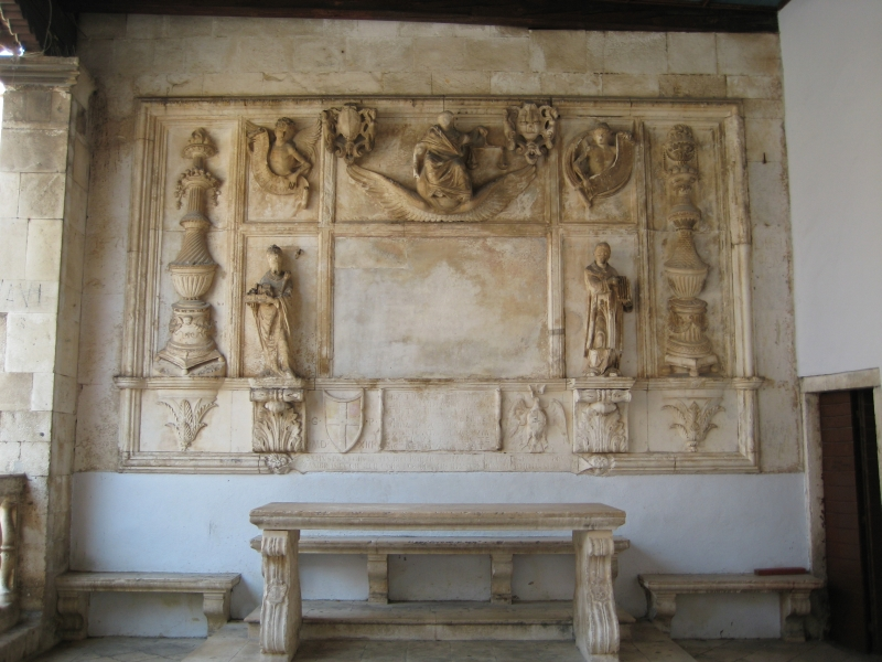 The City loggia from 15th century. Relief by Niccolò di Giovanni Fiorentino (c. 1471). Trogir, Croatia